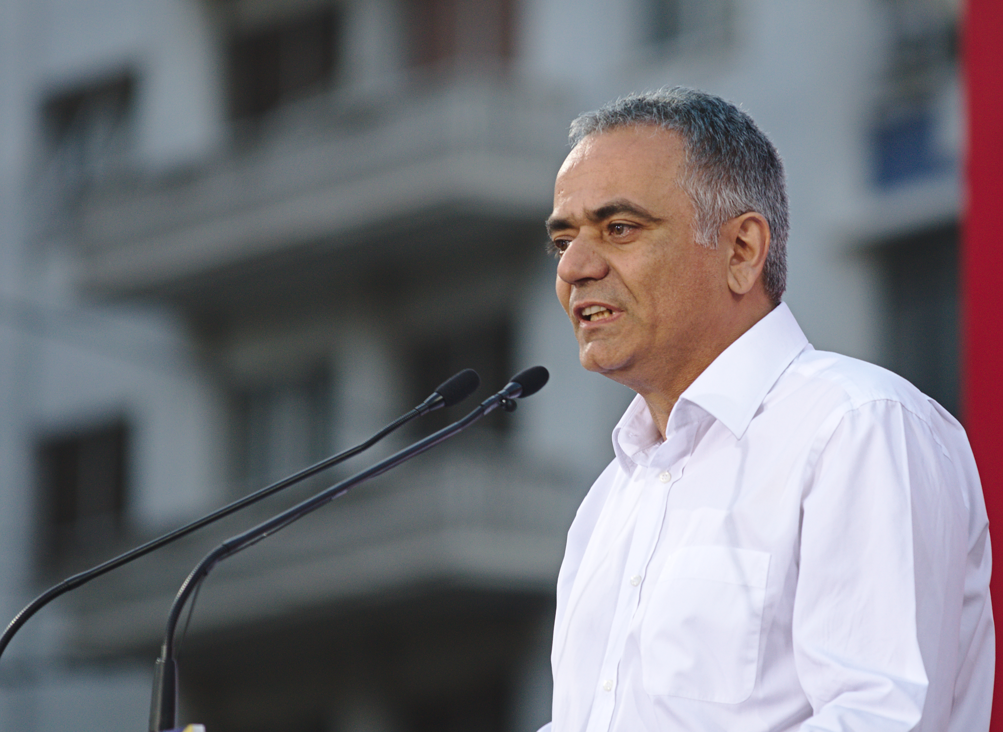 Panos Skourletis at election rally, May 2014 in Athens